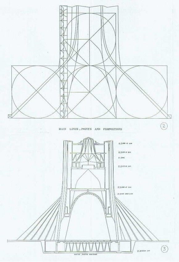 An example of the plans for the Shahyad tower